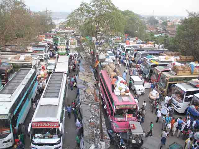 Mango Bus Stand (Jamshedpur Bus Terminals)